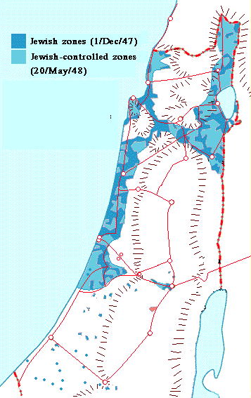 A map created by Ceejee on the French Wikipedia (released under the GFDL), that I modified and translated.